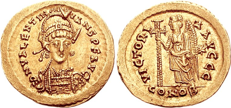 Valentinianus III. 425-455 AD. AV Solidus (4.47 g, 6h). Constantinople mint. Struck AD 450-455. Pearl-diademed, helmeted, and cuirassed bust facing slightly right, holding spear and shield; diadem ribbons to left Victory standing left, holding long cross; star to right; CONOB. RIC X 505; Depeyrot 87/2. Good VF, obverse die rust. Rare. From the Alain Lagrange Collection.